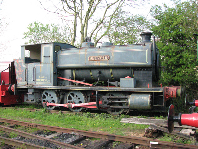 Rutland Railway Museum: locomotive "Belvoir" Built by Andrew Barclay of Kilmarnock, the saddle tank "Belvoir" was delivered new to Harston Quarries in NE Leicestershire in January 1954 and worked there until being replaced by a diesel loco in 1967. The ironstone quarries at Harston were developed by Stanton Ironworks and owned successively by Stewarts & Lloyds and British Steel until closure in 1974. At the Rutland Railway Museum "Belvoir" appears in Stewarts & Lloyds livery. Before returning to the East Midlands it spent some time on the Stour Valley Railway in Essex. (Of the Harston quarries and railway, almost nothing remains after the reclamation of the land, although the site of the engine shed may be dimly discerned at SK847319 1747863 1461411 and the site of sidings and the course of the railway made out in the plantation north of the Harston-Denton road.)